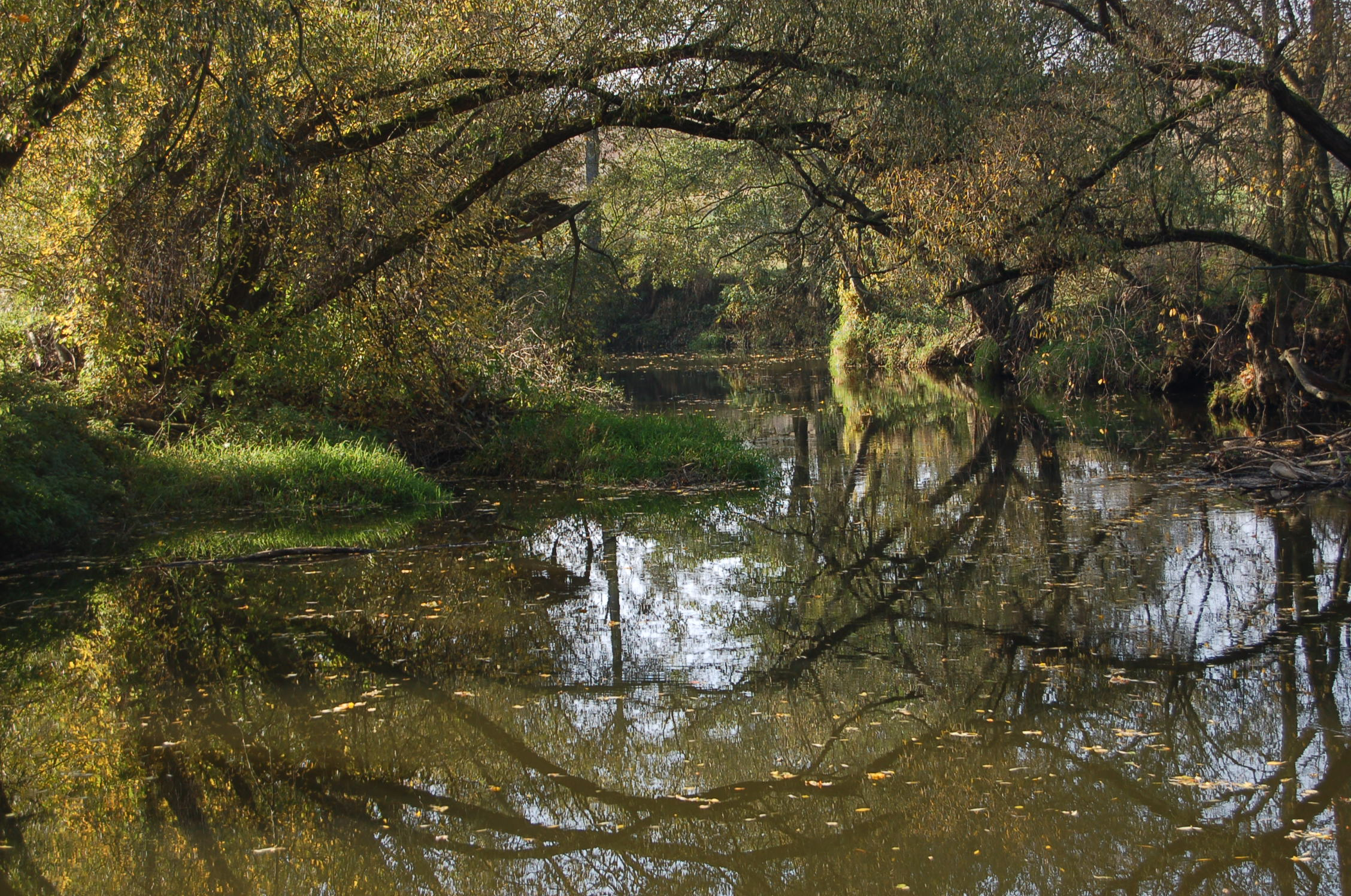 Deutsche Thaya (i.e. German Thaya) river near Dobersberg, Lower Austria